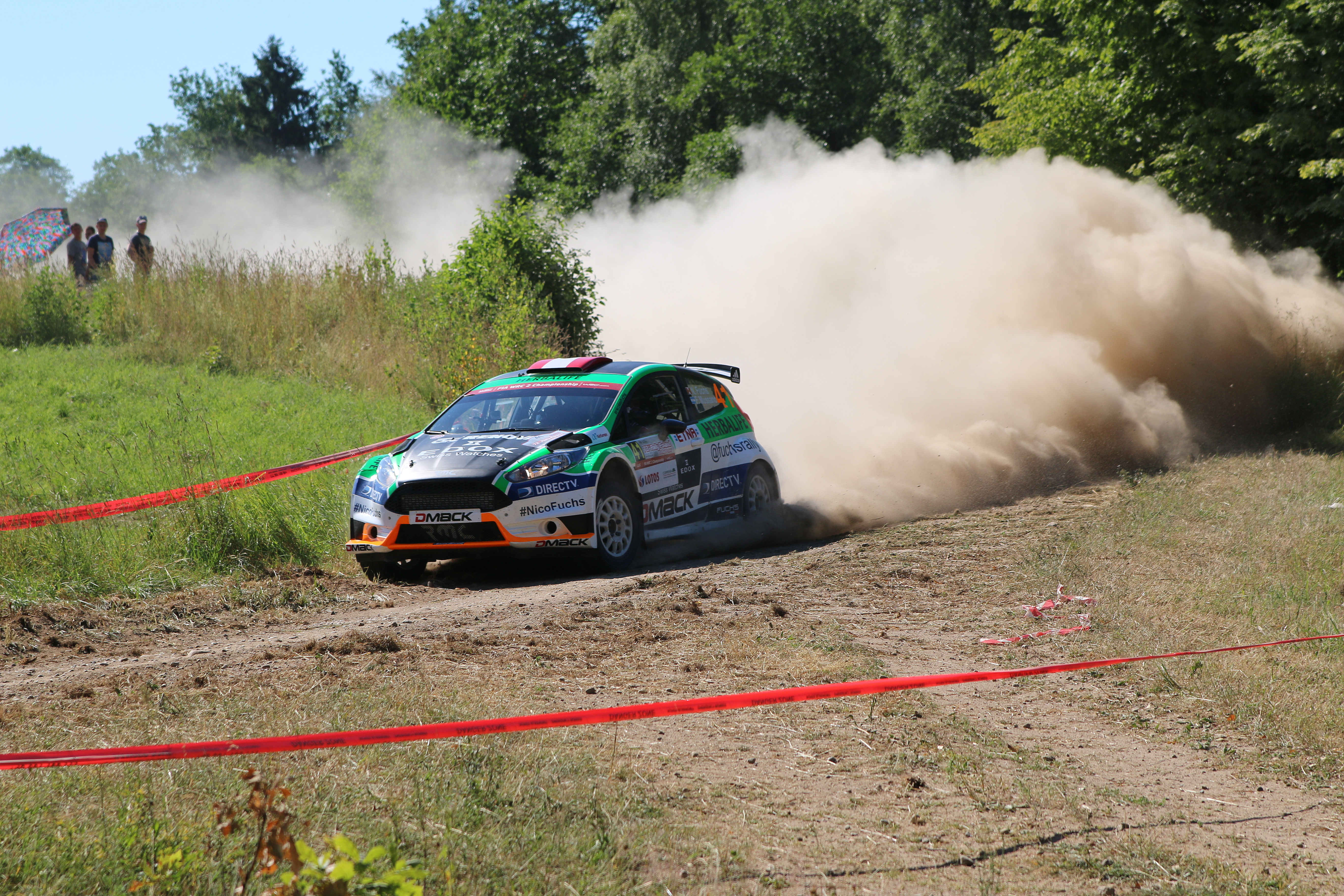 Nicolás Fuchs, OS 10 Mazury, 72nd LOTOS Rally Poland